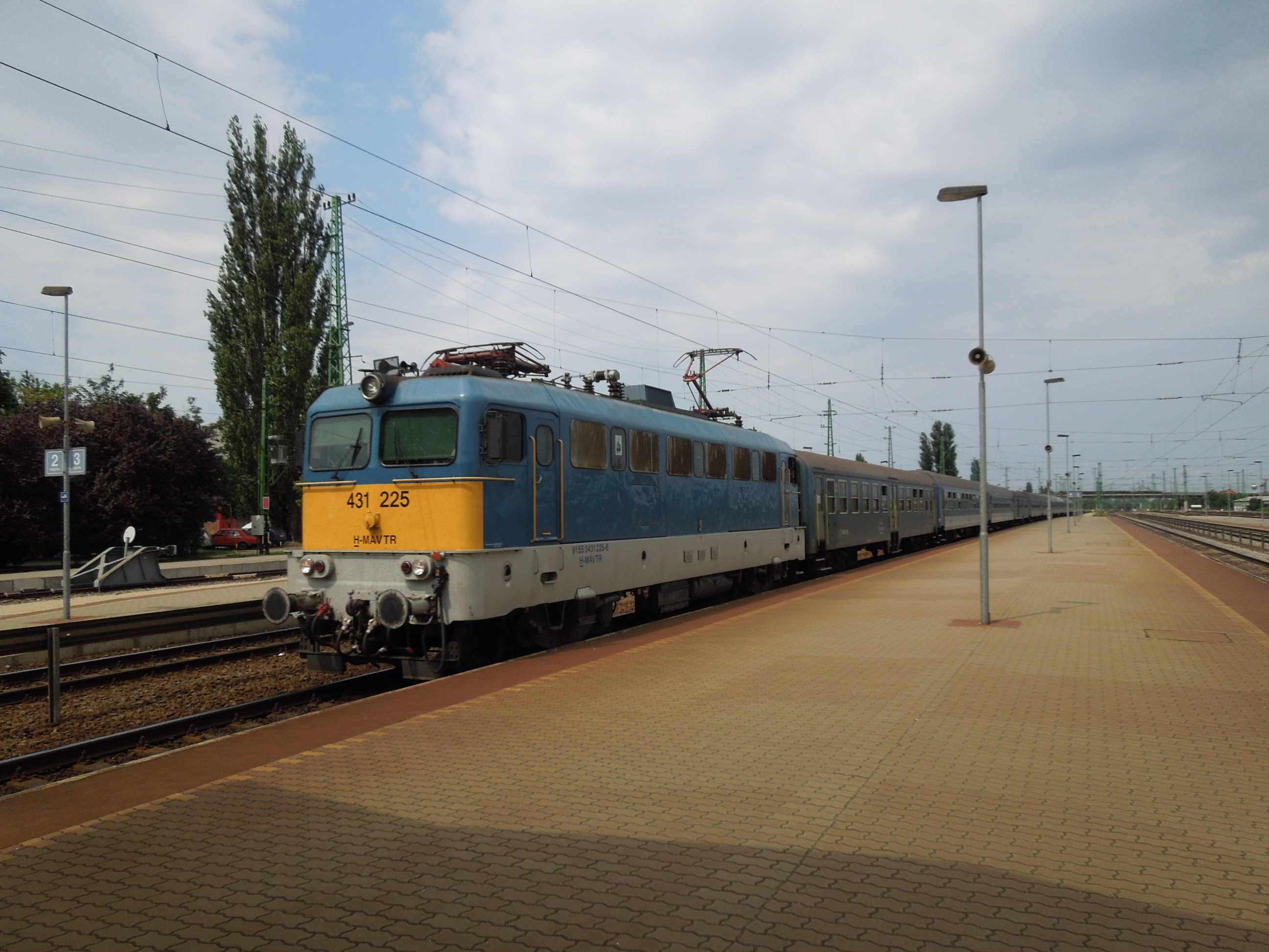 Hibrid IC in Cegléd